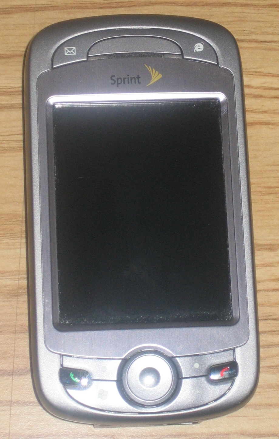 Photo of HTC Mogul smartphone